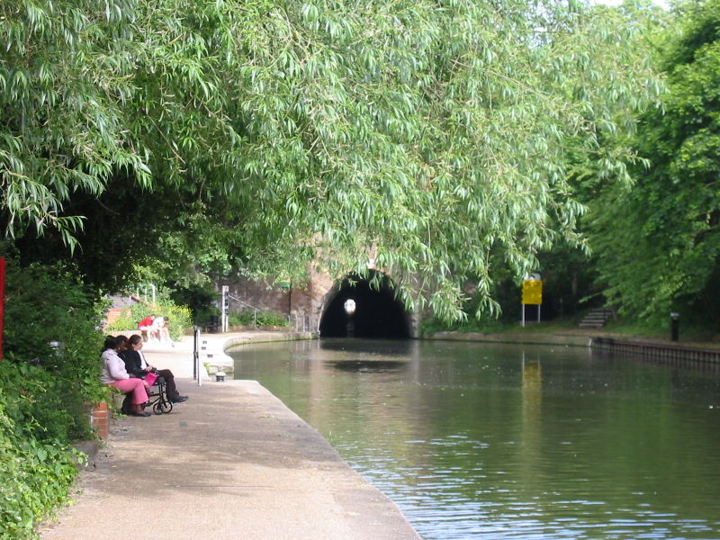 Islington tunnel, Regent's Canal, London.